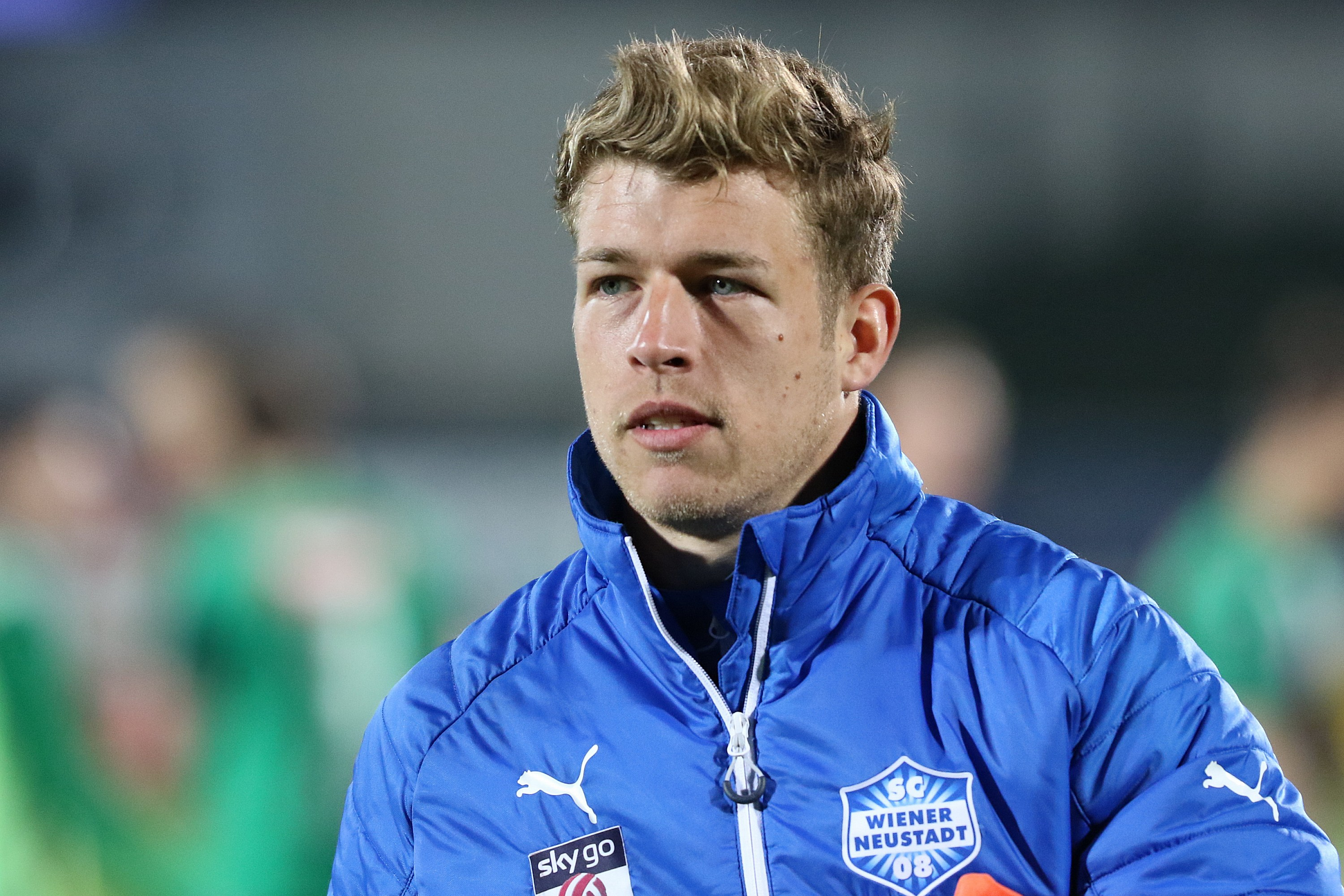 Match of the Erste Liga – SC Wiener Neustadt (blue/white shirts) vs. FC Wacker Innsbruck (green/black shirts) 0–2 (0–1) on 2016-04-11 in the Stadion in Wiener Neustadt – The photo shows Martin Kraus (Goalkeeper of SC Wiener Neustadt).